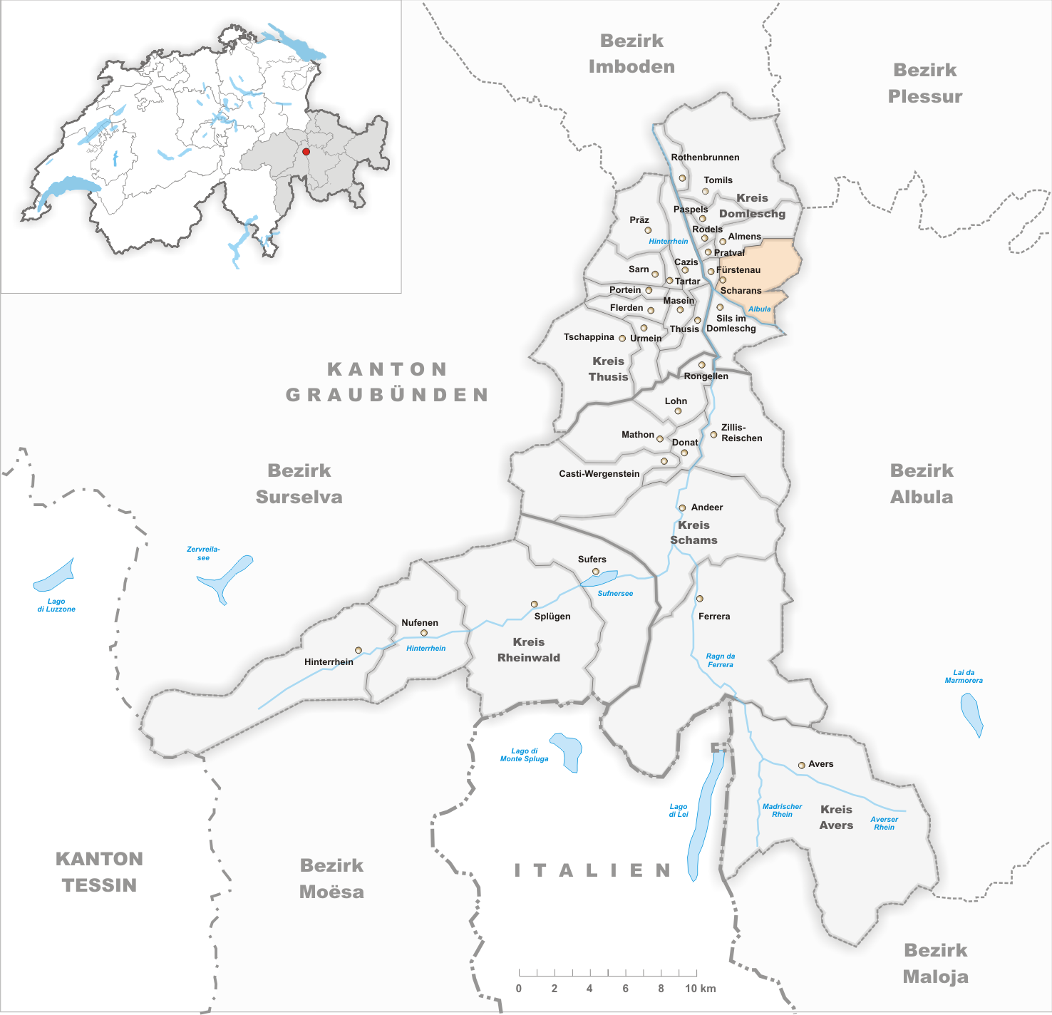 Municipality Scharans